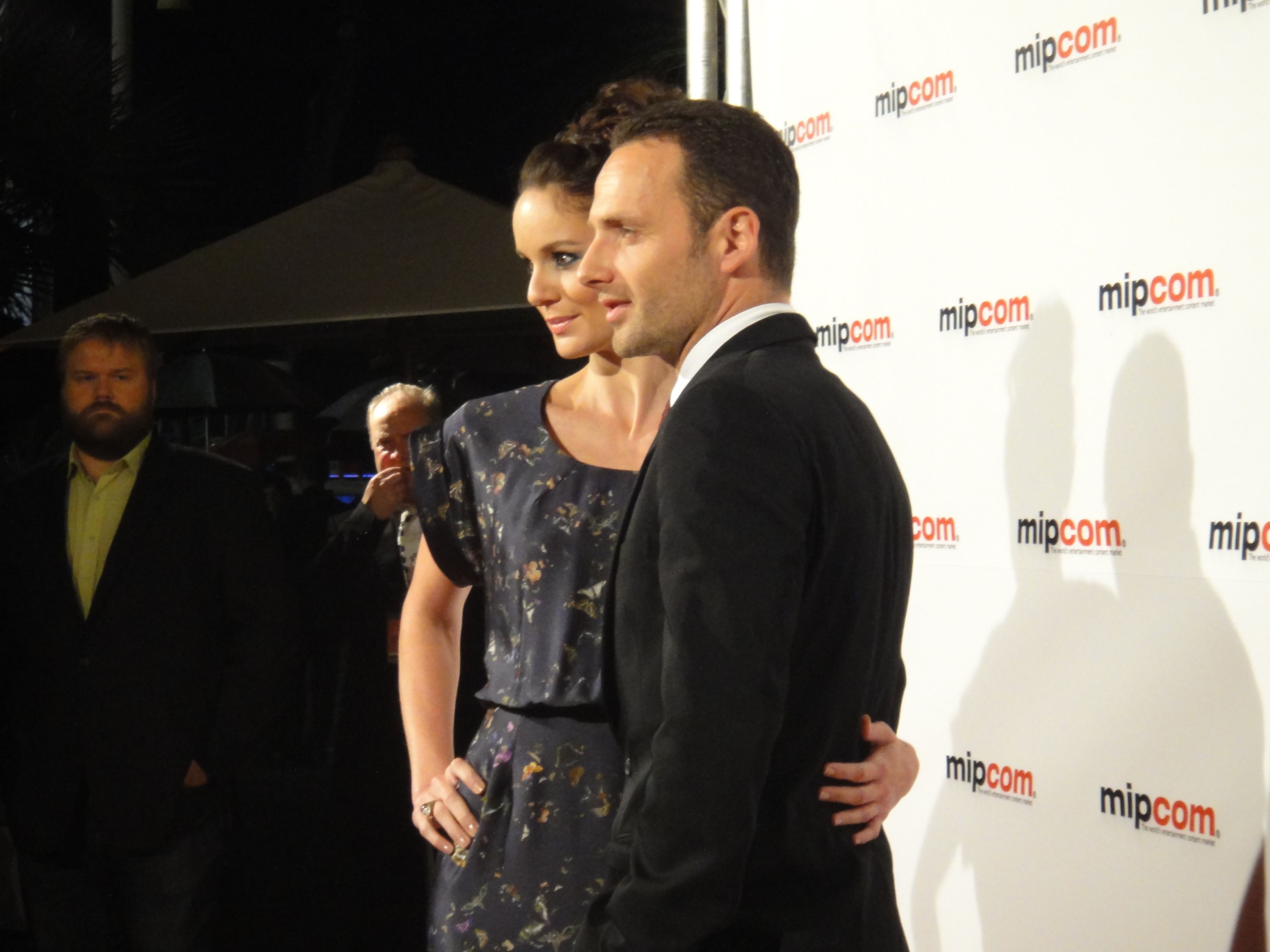 Sarah Wayne Callies and Andrew Lincoln of The Walking Dead